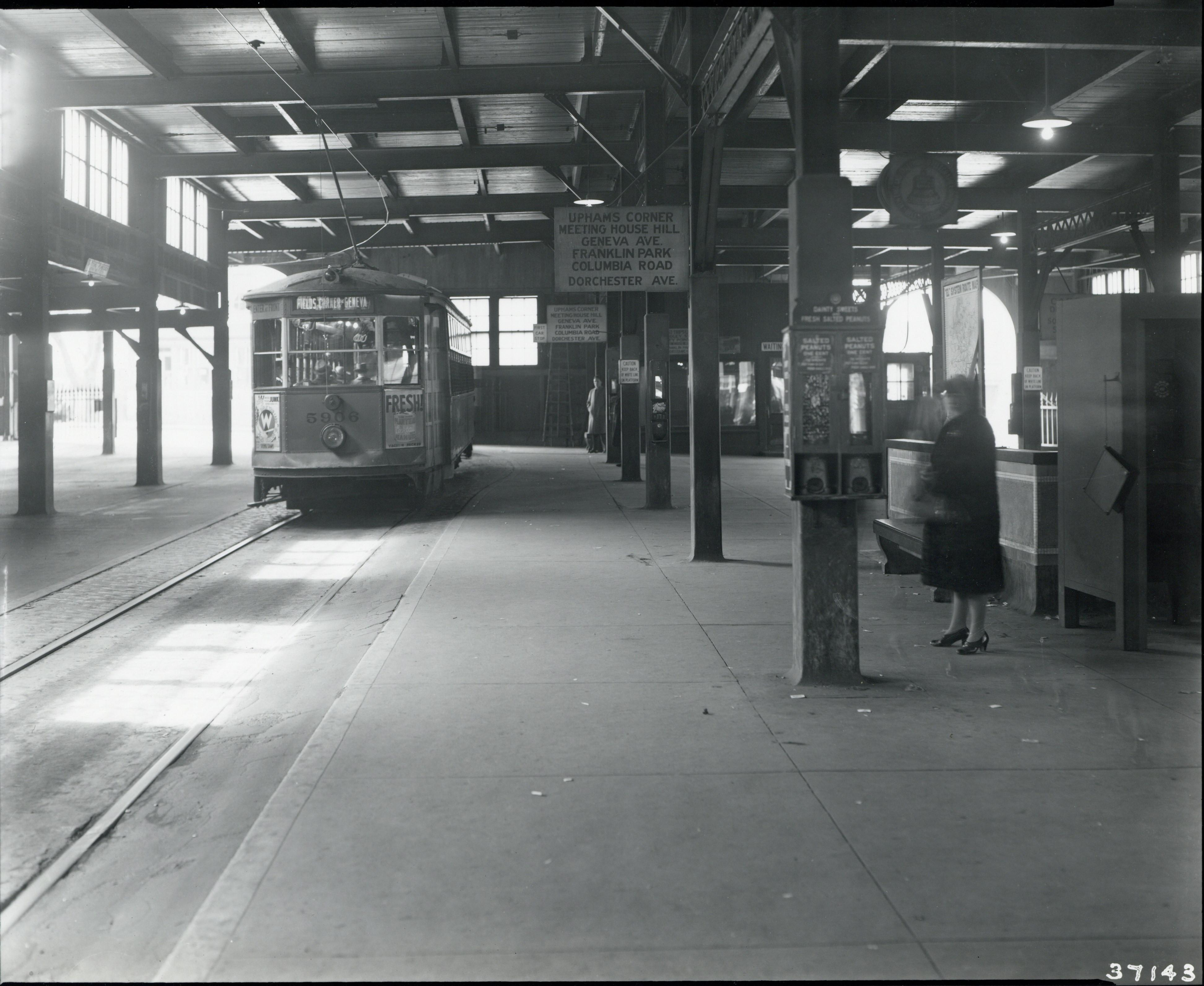 A route 17 streetcar to Fields Corner at Andrew Square station in 1942. The 17 was replaced by trackless trolleys in 1949.